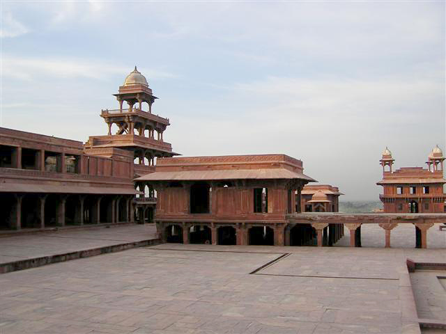 Panch Mahal und audience room at Fathepur Sikri, near Agra, India in 2005